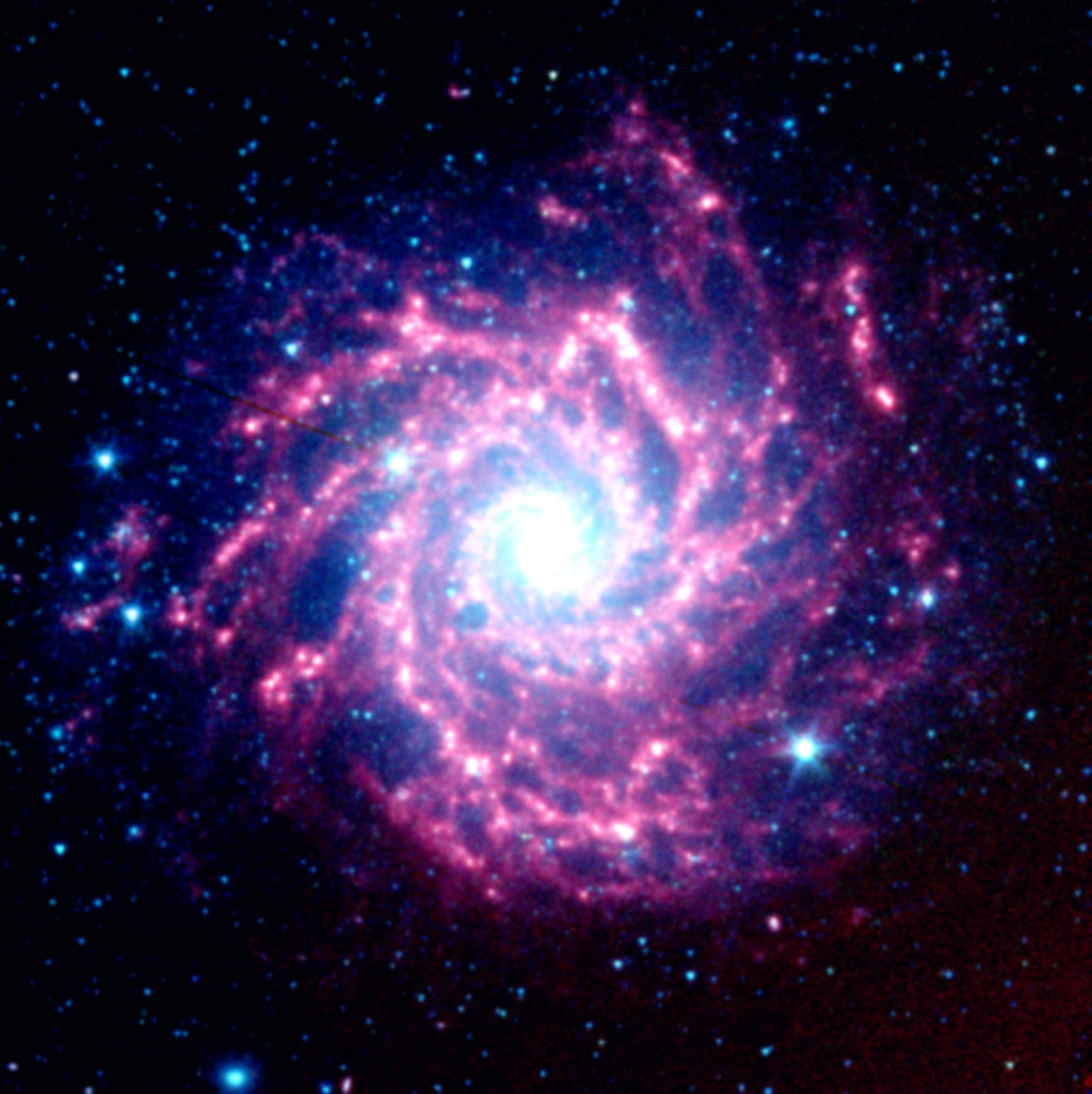 Astronomers using NASA's Spitzer Space Telescope have created this infrared image of the spiral galaxy M74, as seen by Spitzer's Infrared Array Camera. The blue dots represent hot gas and stars. The galaxy's cool dust is shown in red. The image is a false-color, infrared composite, in which 3.6-micron light is blue, 4.5-micron light is green, and 8-micron light is red.